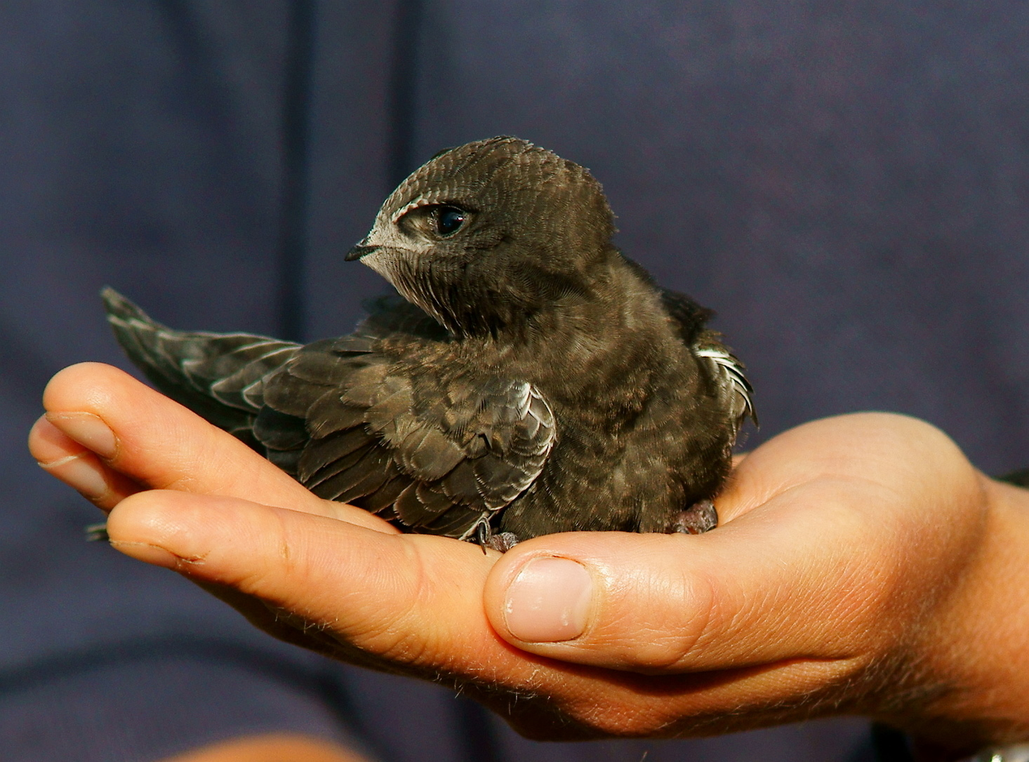 Apus apus. Seen at the British Wildlife Centre, Newchapel, Surrey. Senior Keeper Izzy with a young swift.